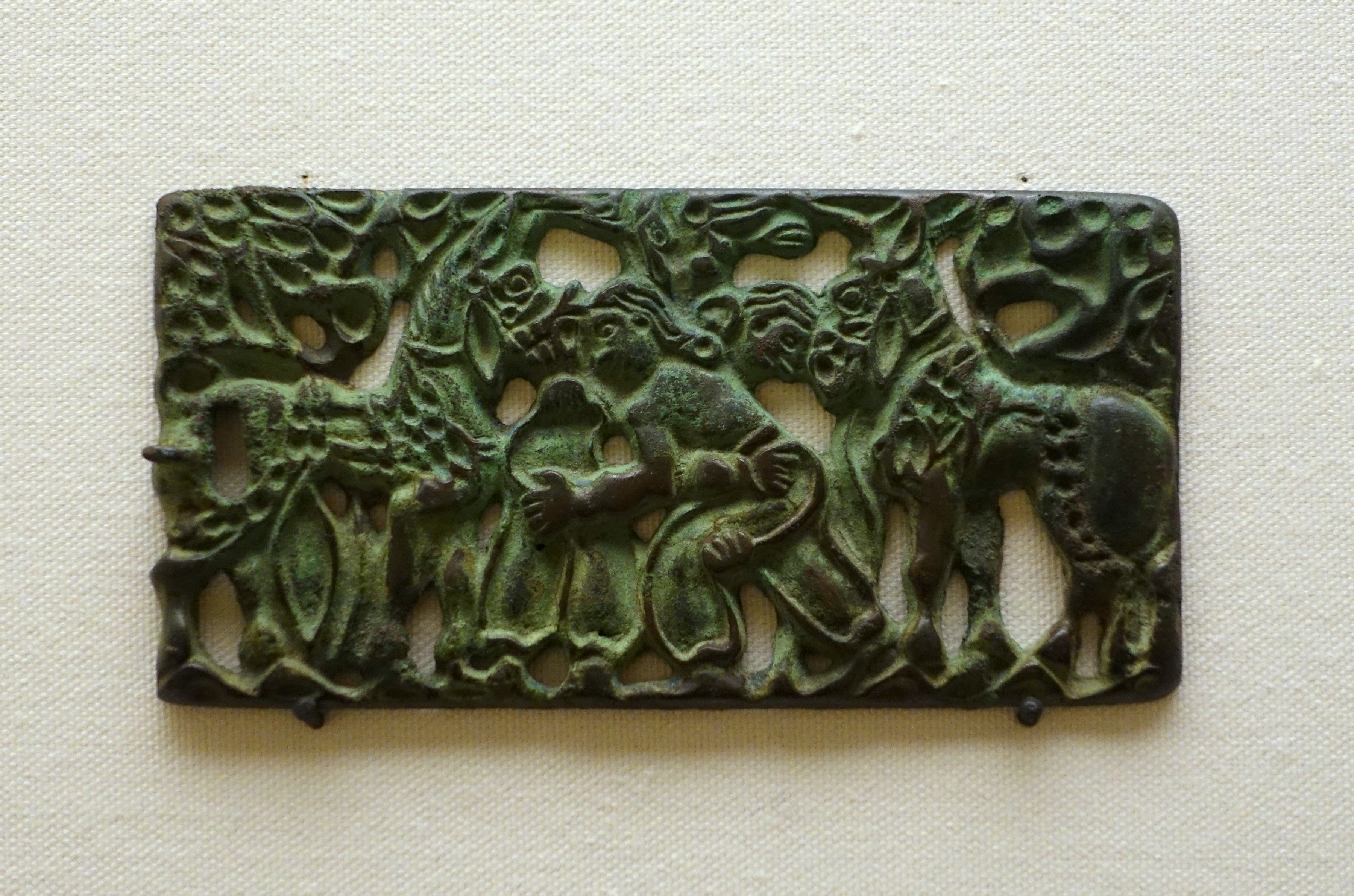 Exhibit in the Ethnological Museum, Berlin, Germany.